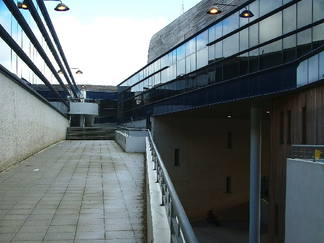 University of Exeter in Cornwall, Tremough Campus. The Tremough Campus encompasses a series of buildings enclosing 'courtyards' - this image showing the walkway that runs easterly between the northern and southern teaching blocks, culminating at the entrance to the Learning Resources Centre.